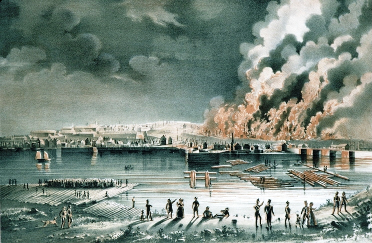 Print, View of Quebec, Canada; From the River St. Charles; Shewing the conflagration of June 28th. 1845, John Murray, Coloured ink on paper, 47.5 x 58.8 cm